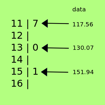 Diagrama showing how to put data in a stem-and-leaf plot.